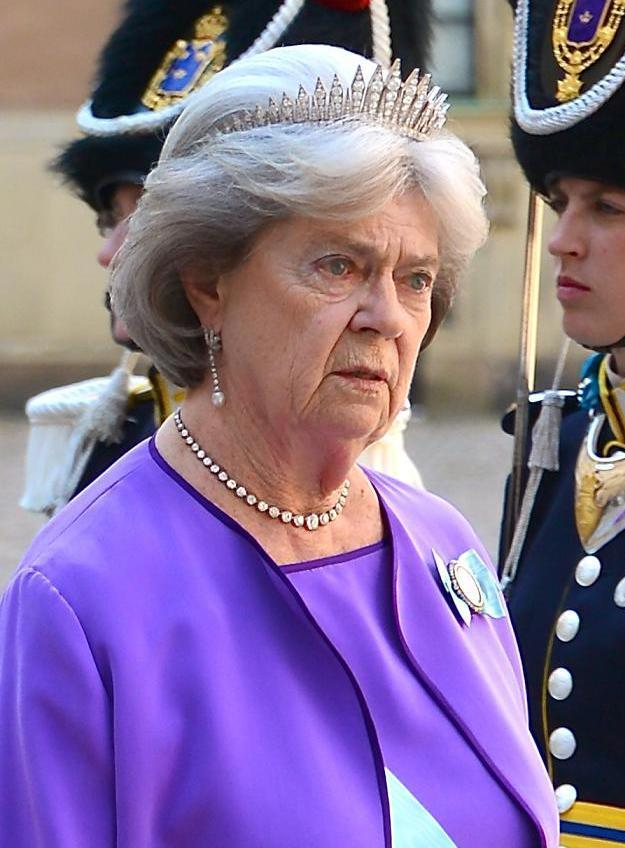 Princess Birgitta and Princess Margaretha on the way to the castle church at the Royal Palace in Stockholm before the wedding between Princess Madeleine and Christopher O'Neill 8 June 2013.